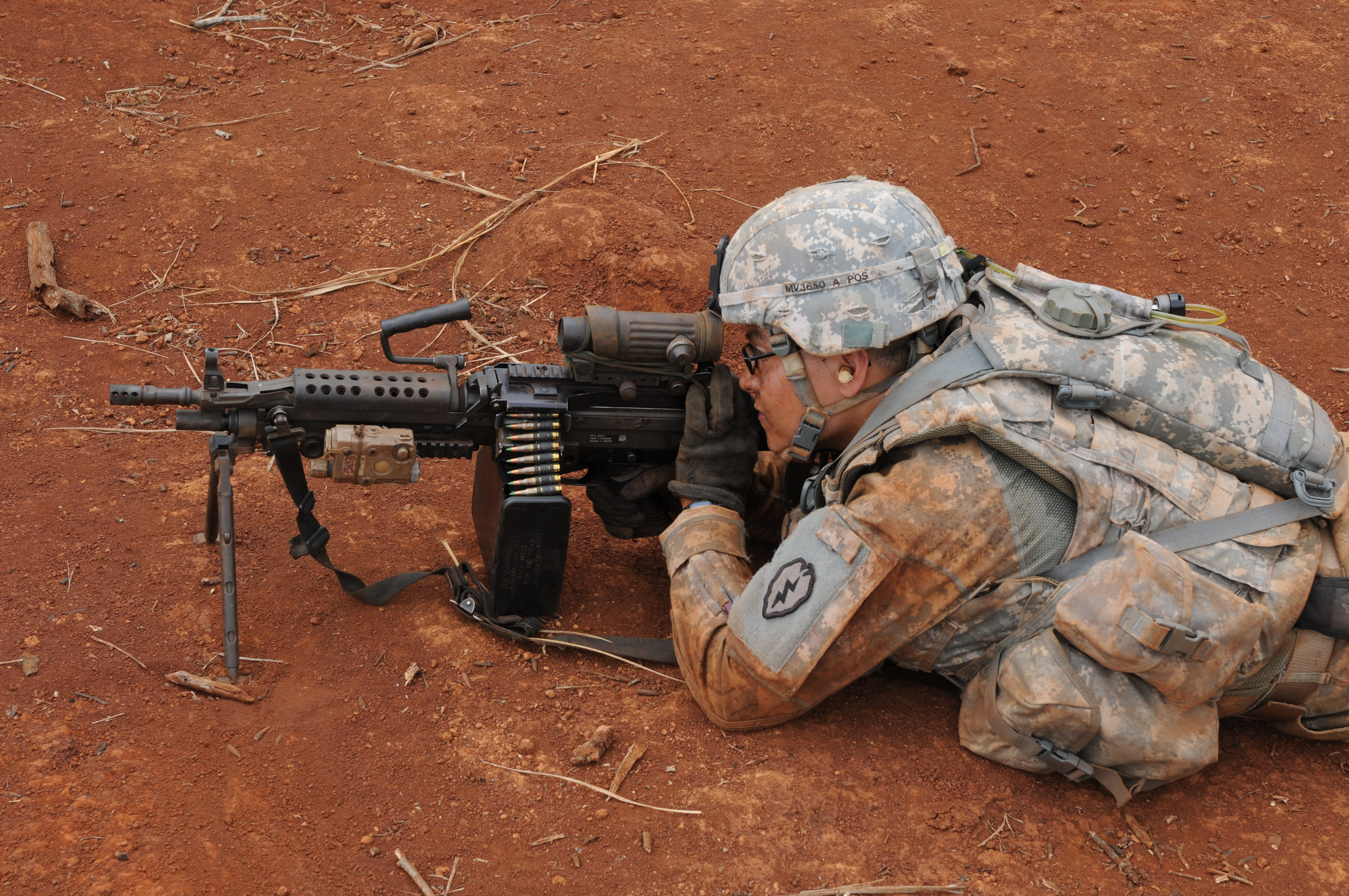 A U.S. Soldier with the 3rd Squadron, 4th Cavalry Regiment, 3rd Brigade Combat Team, 25th Infantry Division aims down the sights of his M249 light machine gun during exercise Bronco Rumble May 12, 2013, at Schofield Barracks, Hawaii. Bronco Rumble was a company-level combined arms live-fire exercise.